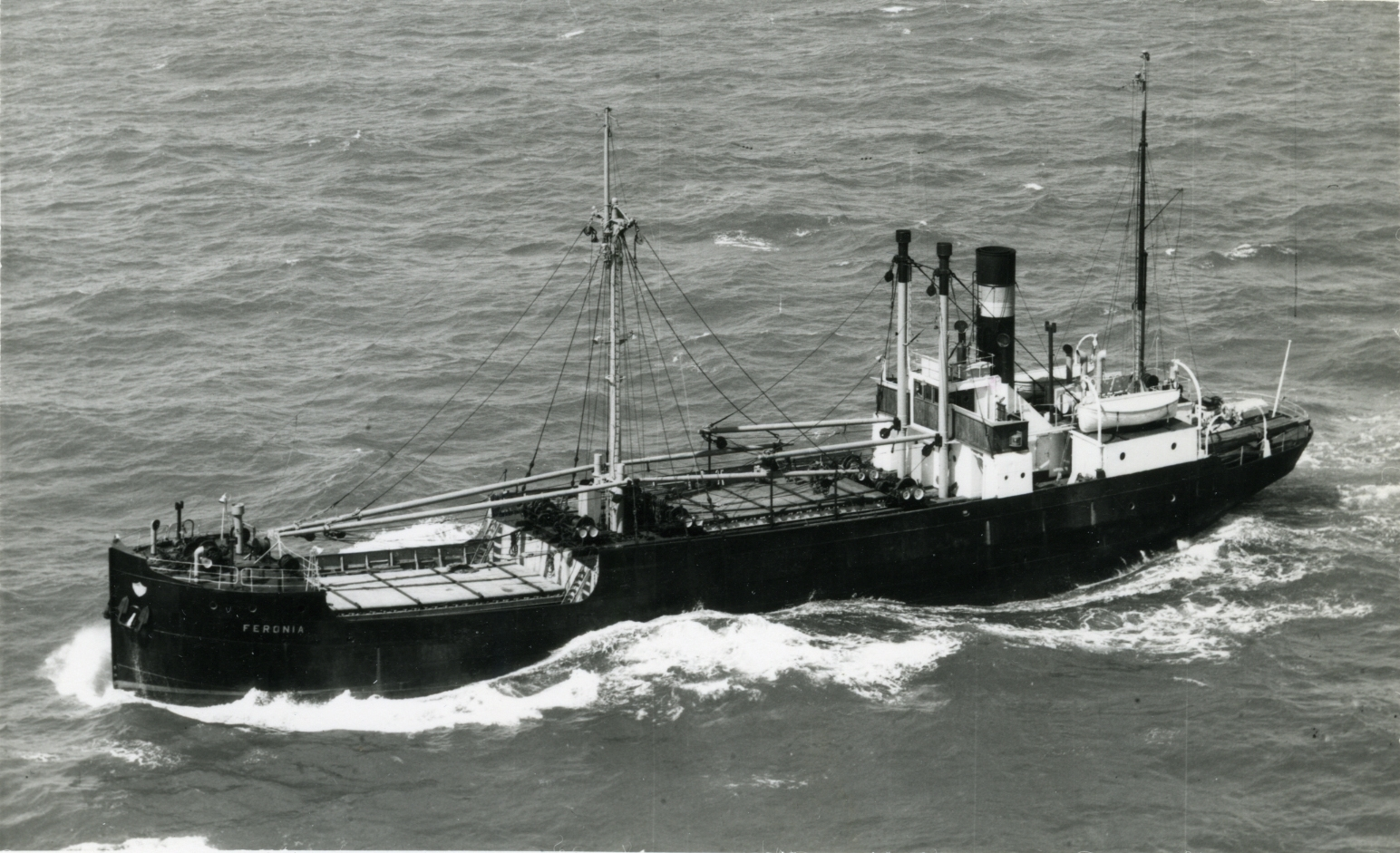 General cargo ship FERONIA (later IMO 5604840) built at Schiffswerft Nobiskrug, Rendsburg, as HANS for Reederei Rochling, Menzell & Co, Flensburg (yard № 86, completed: 01-1920), 1924 TEJO (Reederei Rochling, Menzell & Co, Hamburg), 1927 FERONIA (Dampfschifffahrts-Gesellschaft „Neptun“, Bremen), 1956 HARBURG (Poljo Reederei Pohl & Jozwiak), 16-02-1957 sunk after collision with Swedish ship TINNY off Stockholm; collection J. Robert Boman (1926-2002) owned by Sjöhistoriska museet.